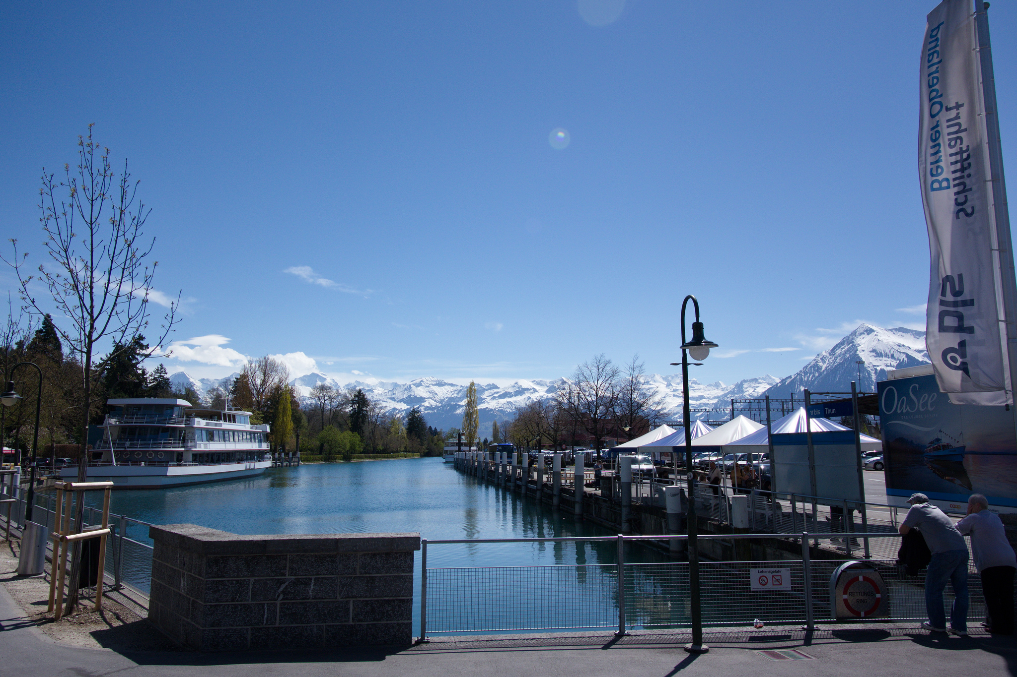 The Thun ship canal, in the Swiss town of Thun, gives passenger ships on Lake Thun access to Thun railway station. For more information, see the Wikipedia articles Thun ship canal and Thun railway station.